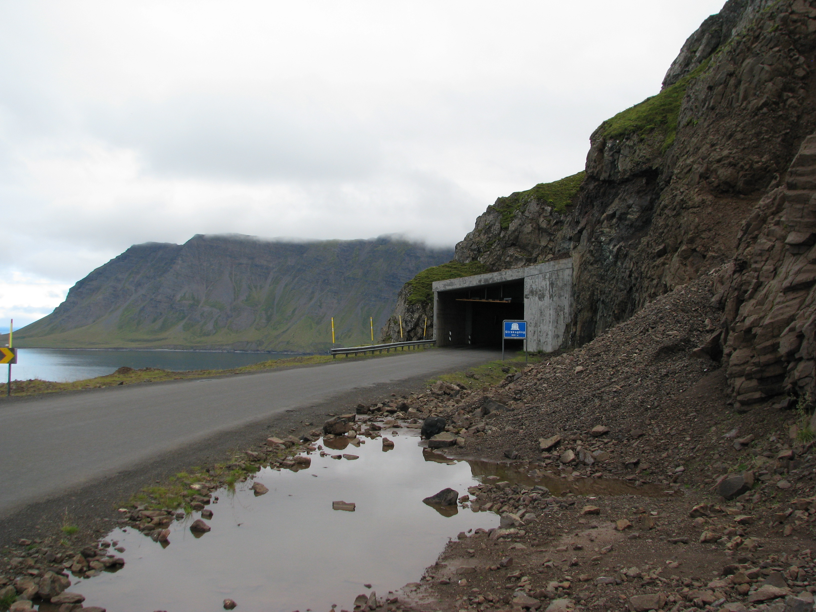 The north entrance of the Strákagöng, a tunnel in the north of Iceland.